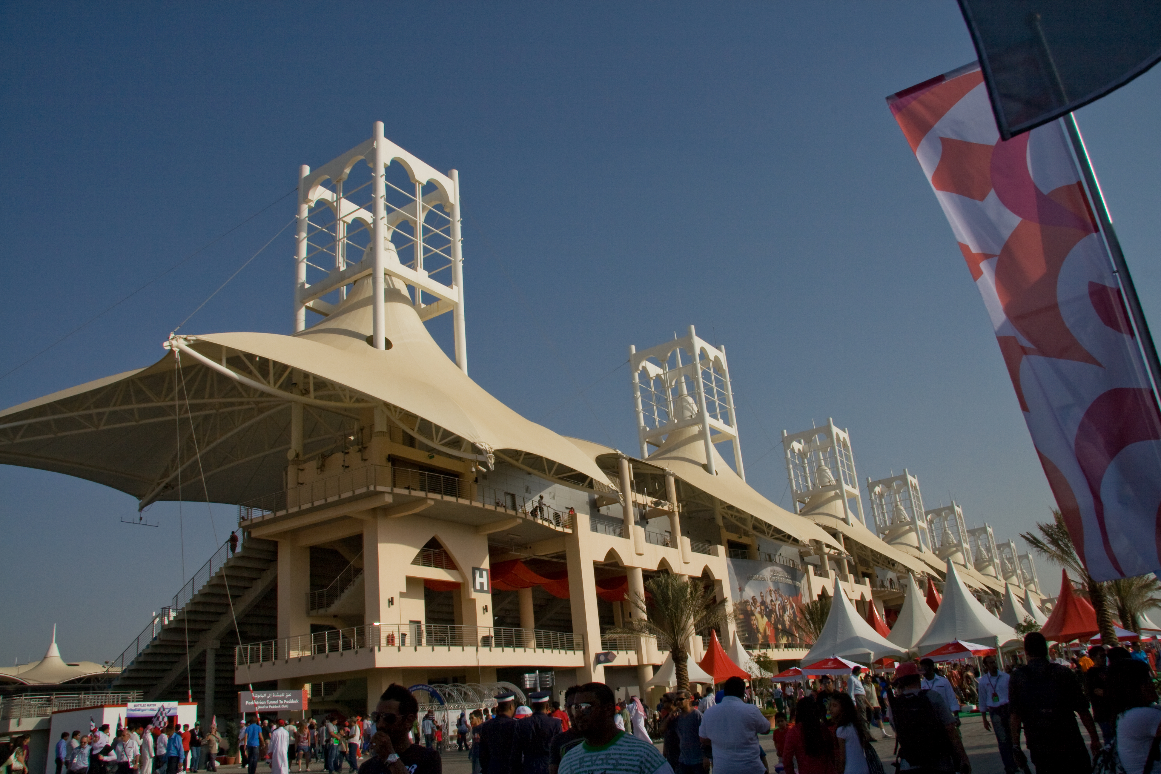 View of the stands from outside the main grandstands at the Formula One race in Bahrain.